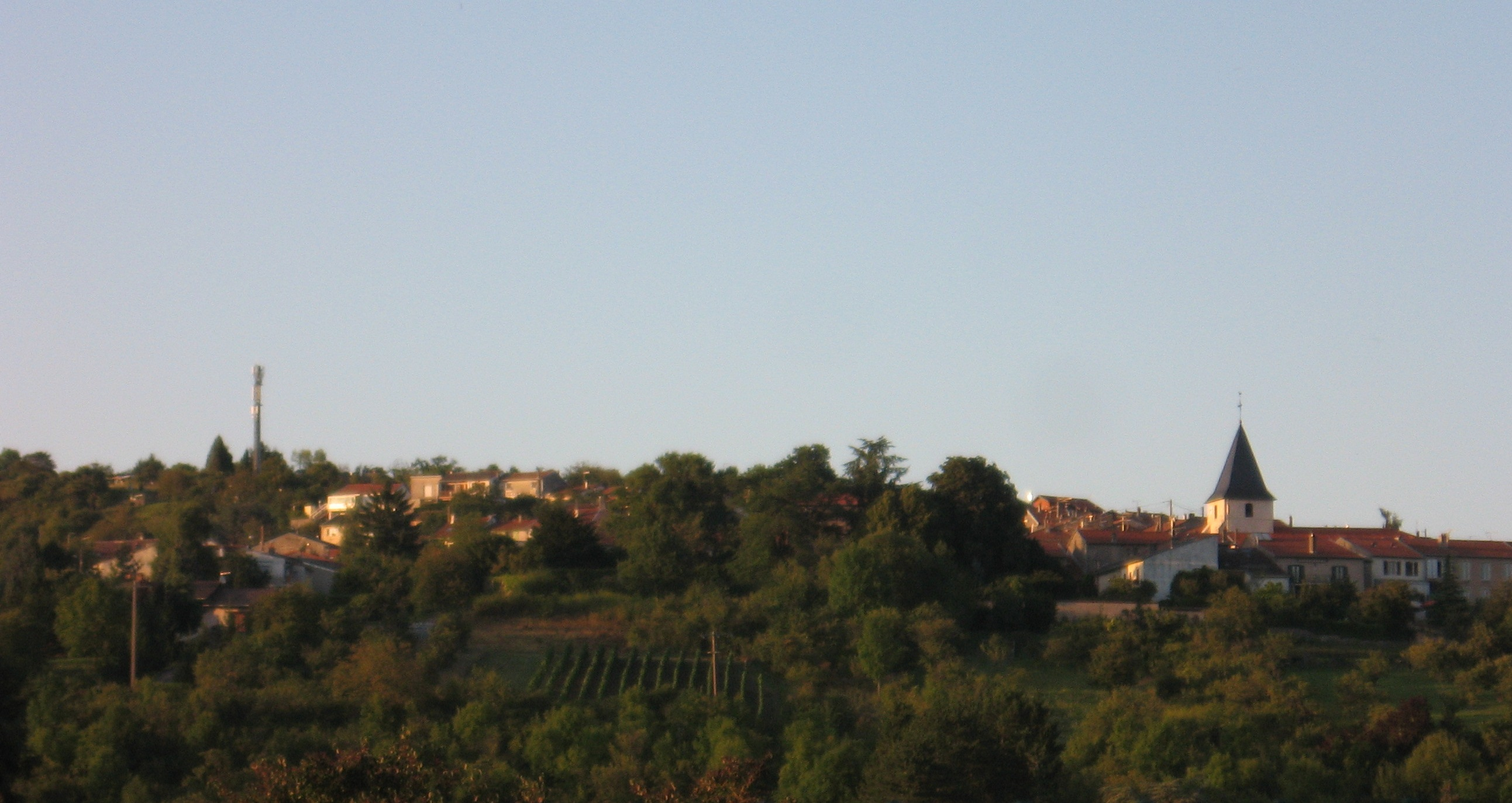 Chaligny